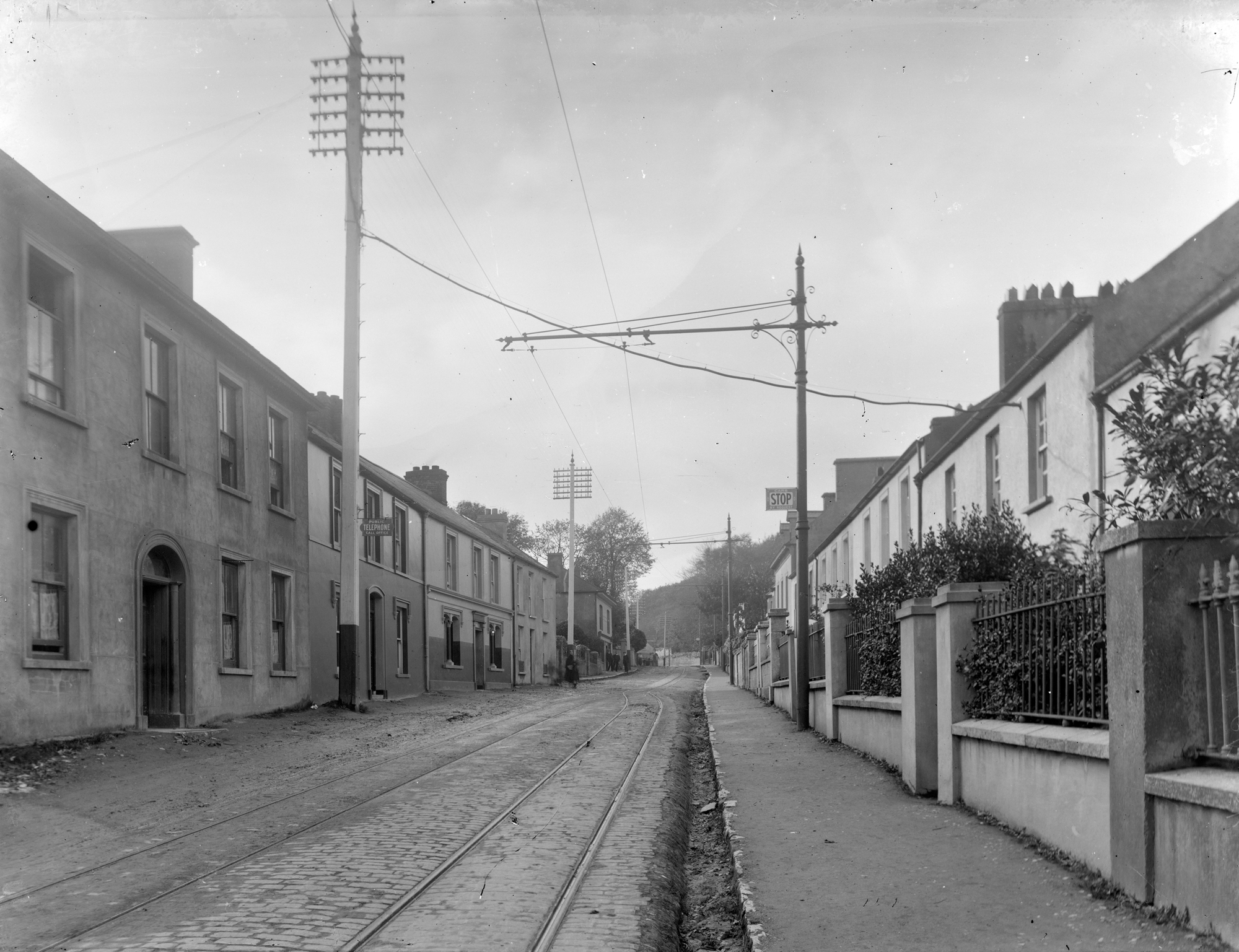 This street is not unlike some recent shots but with some differences. I thought there was what was known as a bit off a gyuck in the line up there but it is a set of points to change from a double into a single. Are they policemen in the distance???? [/photos/gnmcauley/ Niall McAuley] identified this street as Blackrock Road, Cork. He also provides a streetview link and a link to an article in the Echo from 2014, I have included an extract of the relevant section below: "When initial survey works were carried out last year workers uncovered old tram lines and cobbles that were found intact under the road surface. The tram lines operated in Cork city from 1898 to 1931, running from Blackpool to Douglas, Summerhill to Sunday’s Well and Tivoli to Blackrock. The trams, run by the Cork Electric Tramways and Lighting Company, ceased operation in September 1931, largely due to the increasing popularity of buses. The Council plans to incorporate the tram lines into the redevelopment of the harbour." Photographer: Fergus O’Connor Collection: Fergus O’Connor Collection Date: 1900 - 1920 NLI Ref: OCO371 You can also view this image, and many thousands of others, on the NLI’s catalogue at